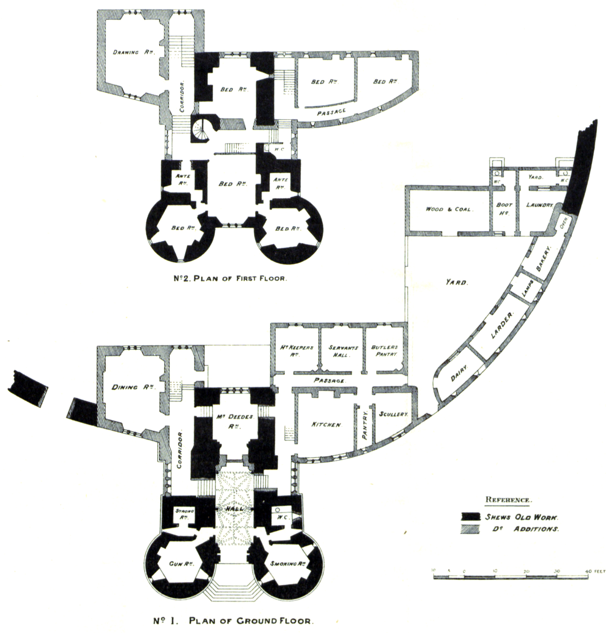 Diagram showing reconstruction of Saltwood Castle, 1885